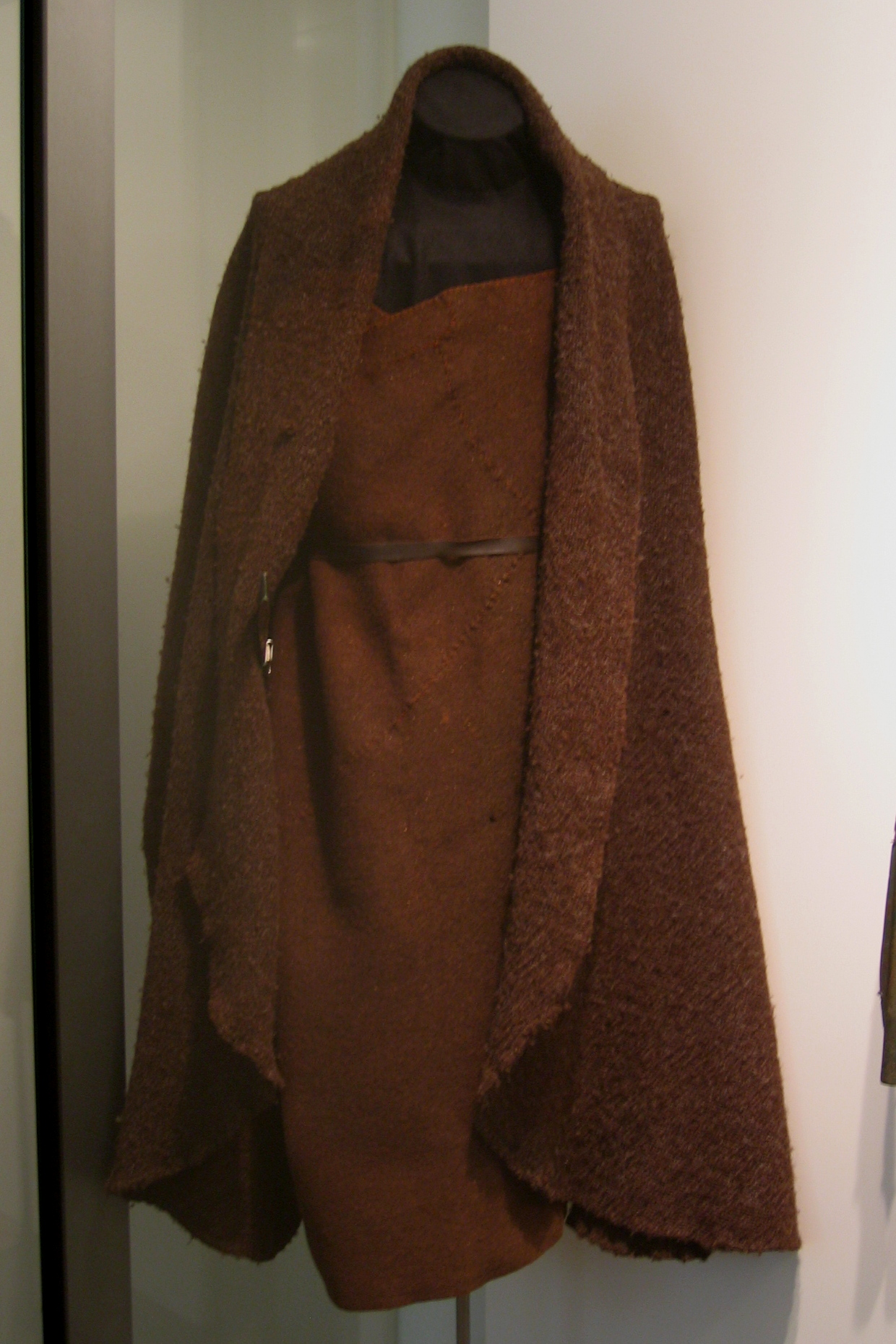 Mens clothing of Trindhøj. Nordic Bronze Age. Nationalmuseum of Denmark, Copenhagen, Denmark